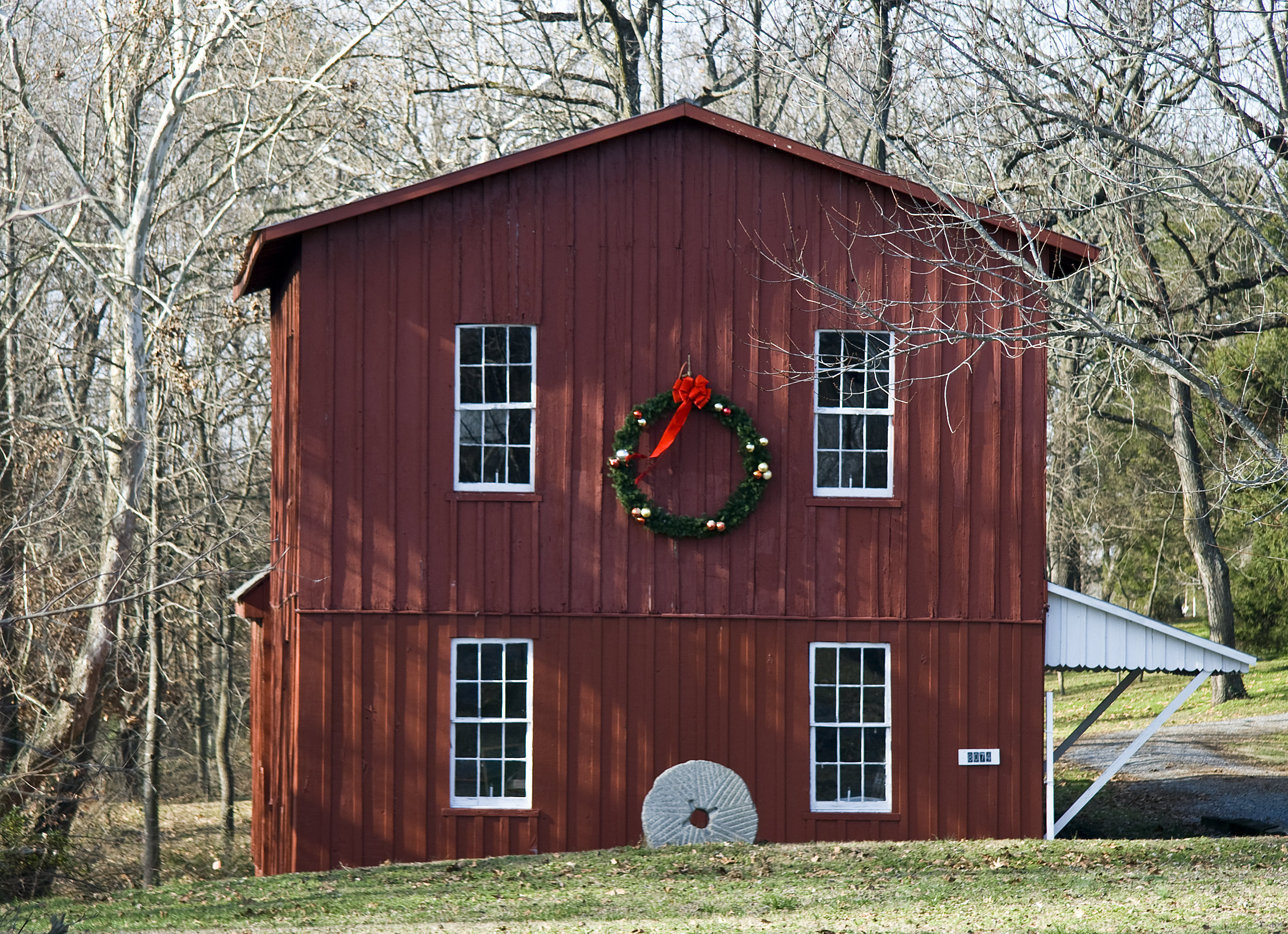 Williston Mill, south of Denton, Maryland, USA